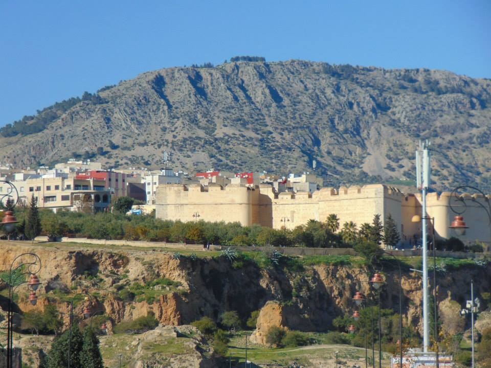 burjnord